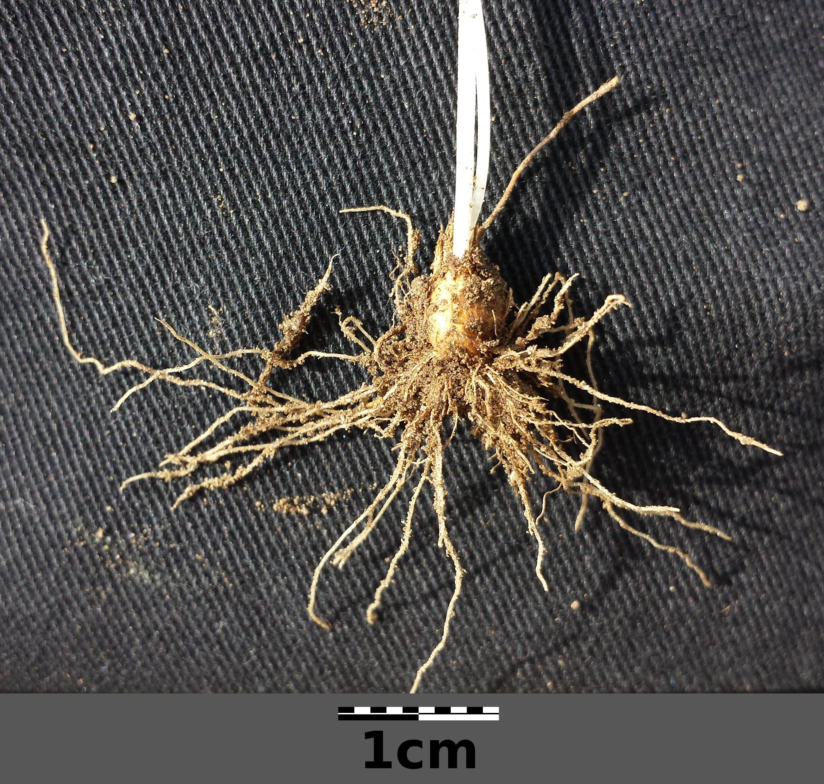 Bulb Taxonym: Gagea pusilla ss Fischer et al. EfÖLS 2008 ISBN 978-3-85474-187-9 Location: Loess hill to the west of Großebersdorf, district Mistelbach, Lower Austria - ca. 200 m a.s.l. Habitat: dry grassland on Loess